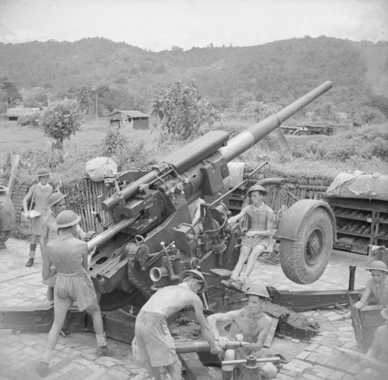 The British Army in Burma 1944 A 4.5-inch anti-aircraft gun of 66th Heavy Anti-Aircraft Regiment, Royal Artillery, at one of the main supply airstrips on the Ledo road, 24 July 1944.